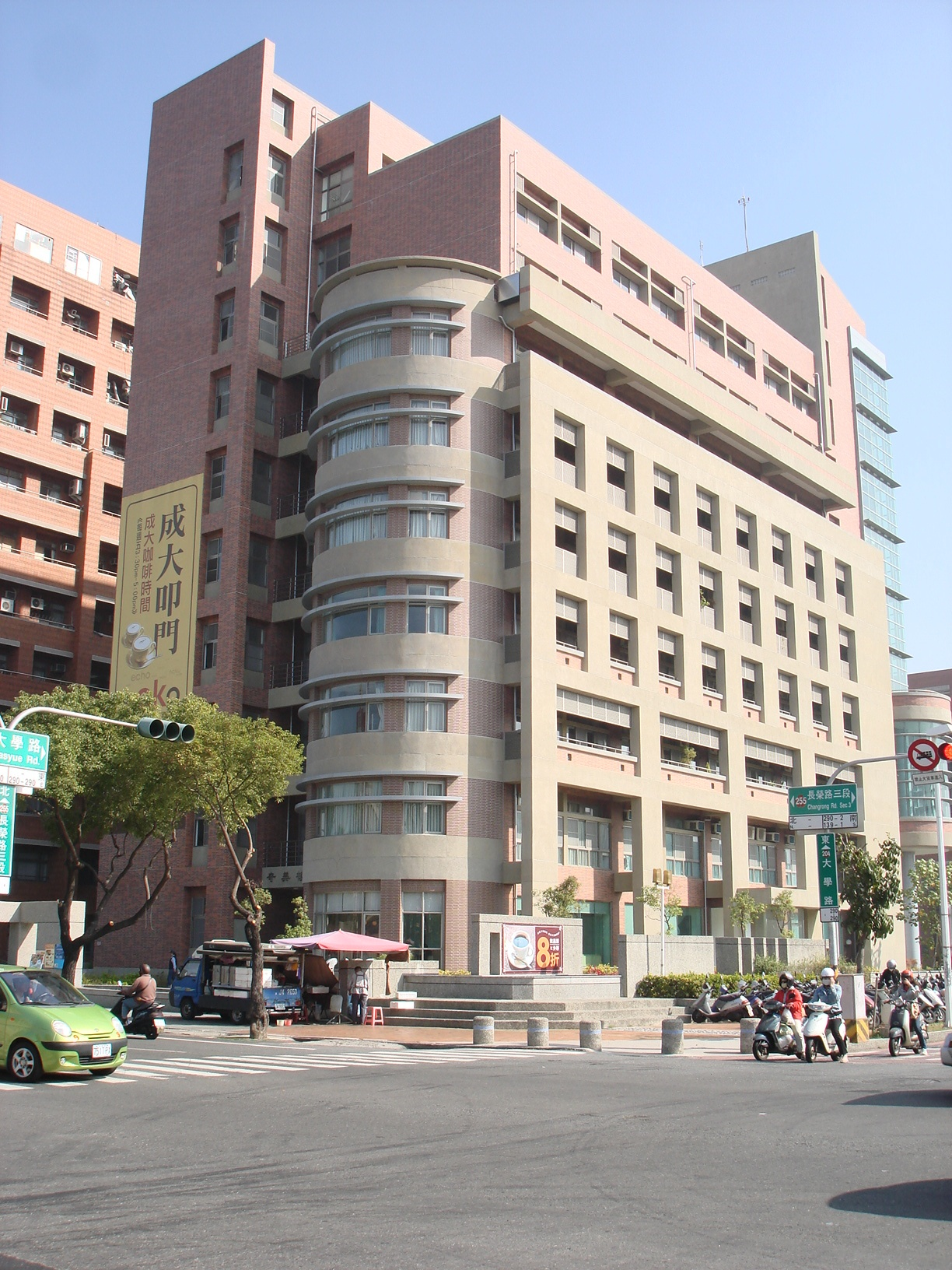 Che-mei Building of NCKU